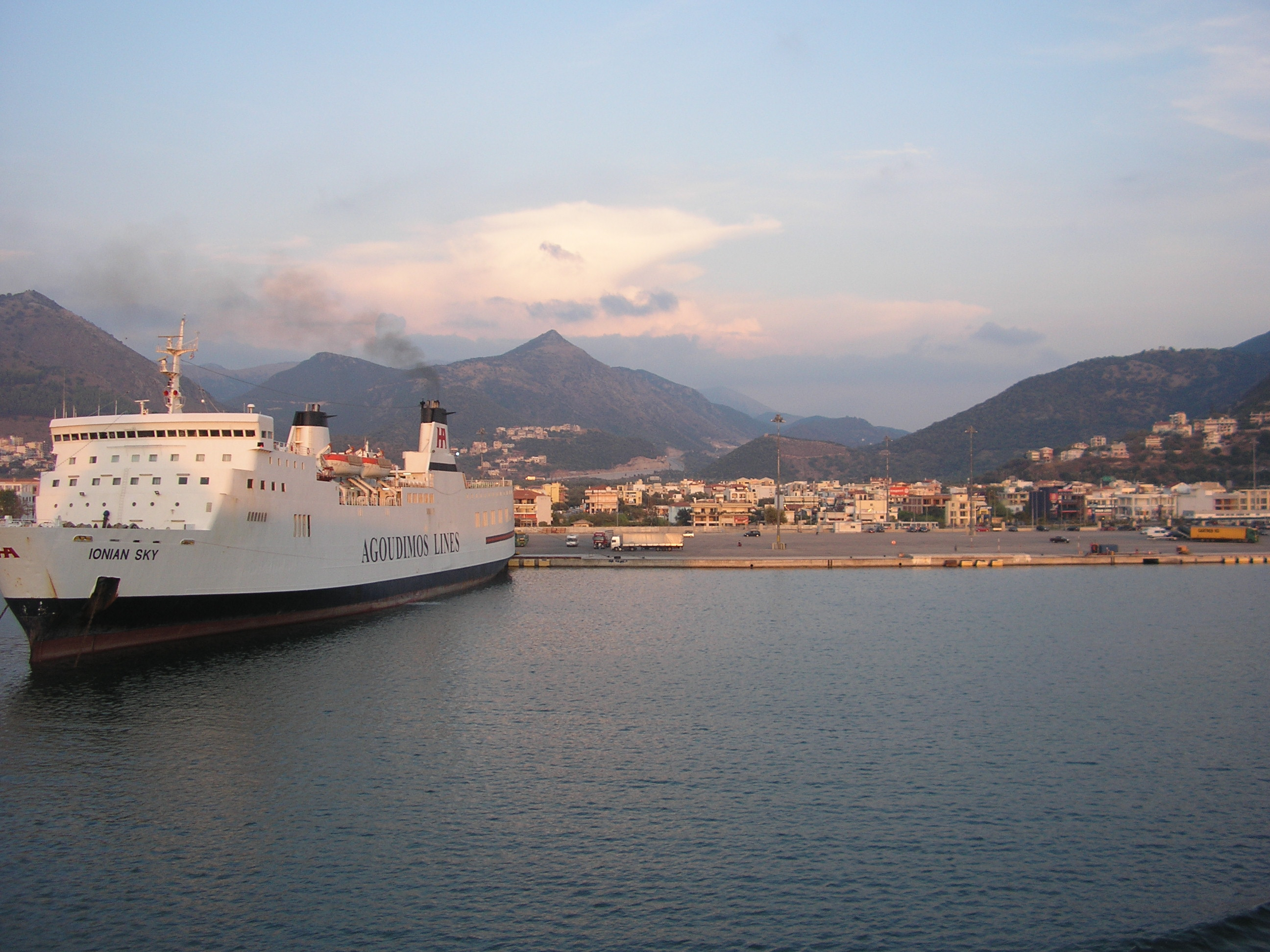 Igoumenitsa